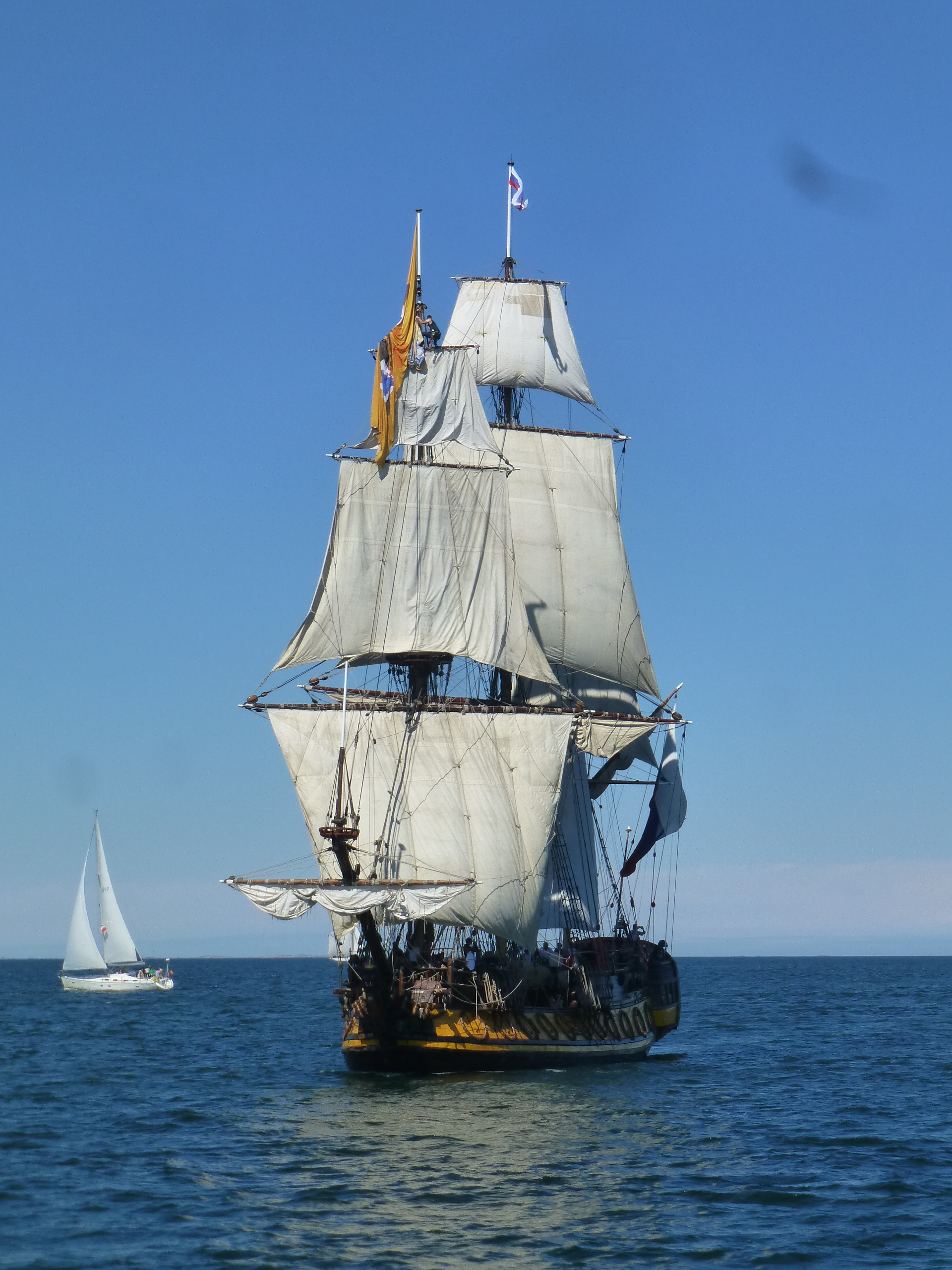 The Shtandart at the beginning of the Talls ship' race in 2017 (Turku, Finland).